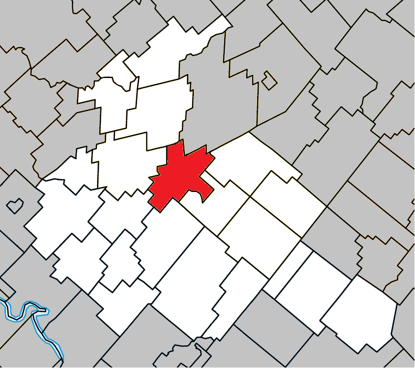 Location of Victoriaville, Quebec within Arthabaska Regional County Municipality.